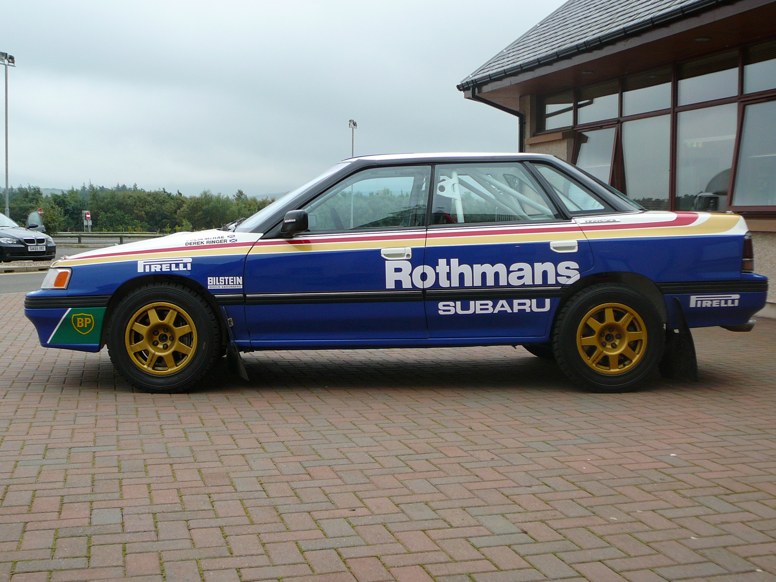 Colin McRae's Subaru Legacy Rally car